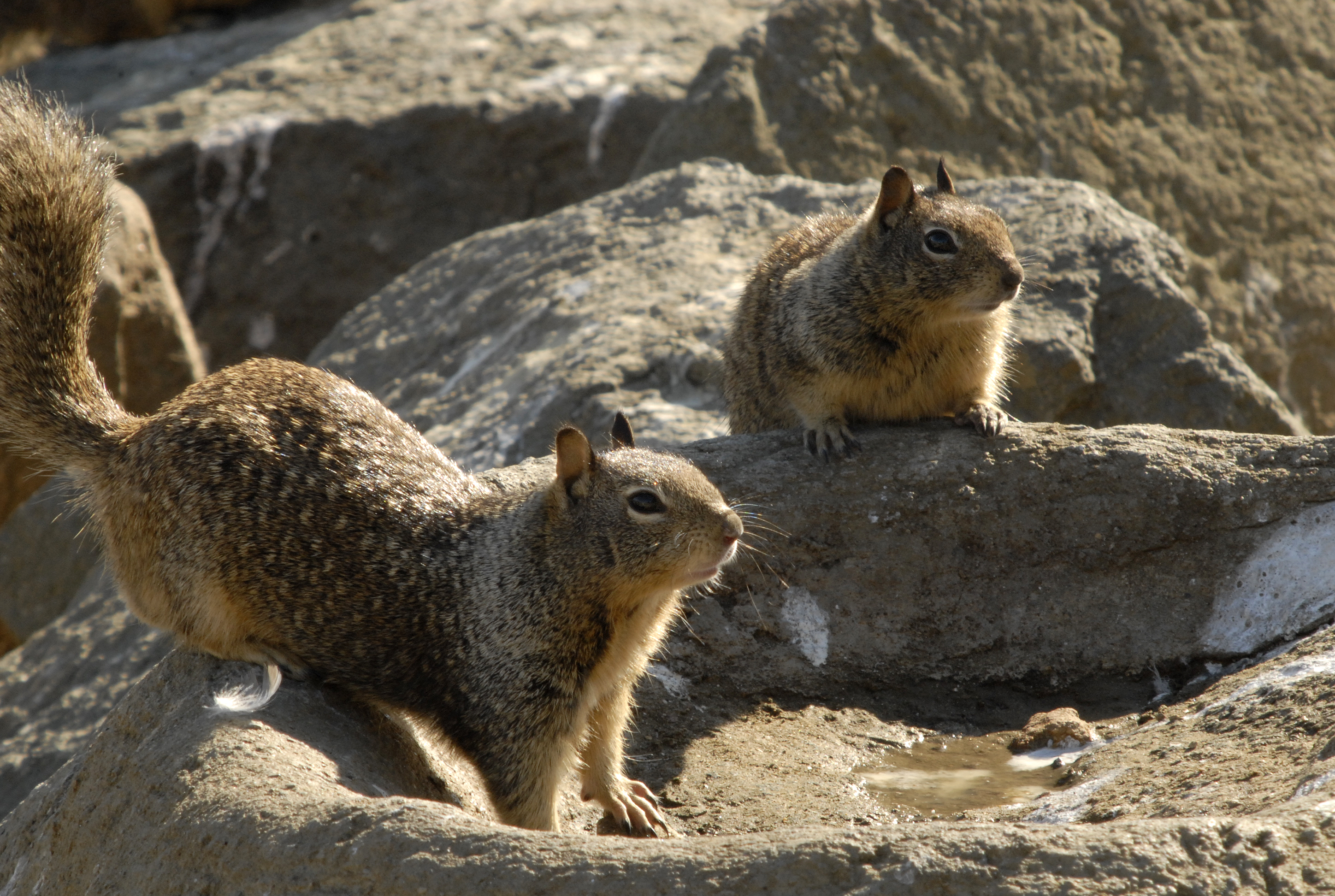 California Ground Squirrel